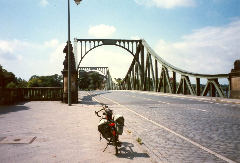 Glienicke Bridge across the river Havel, connecting Berlin and Potsdam.